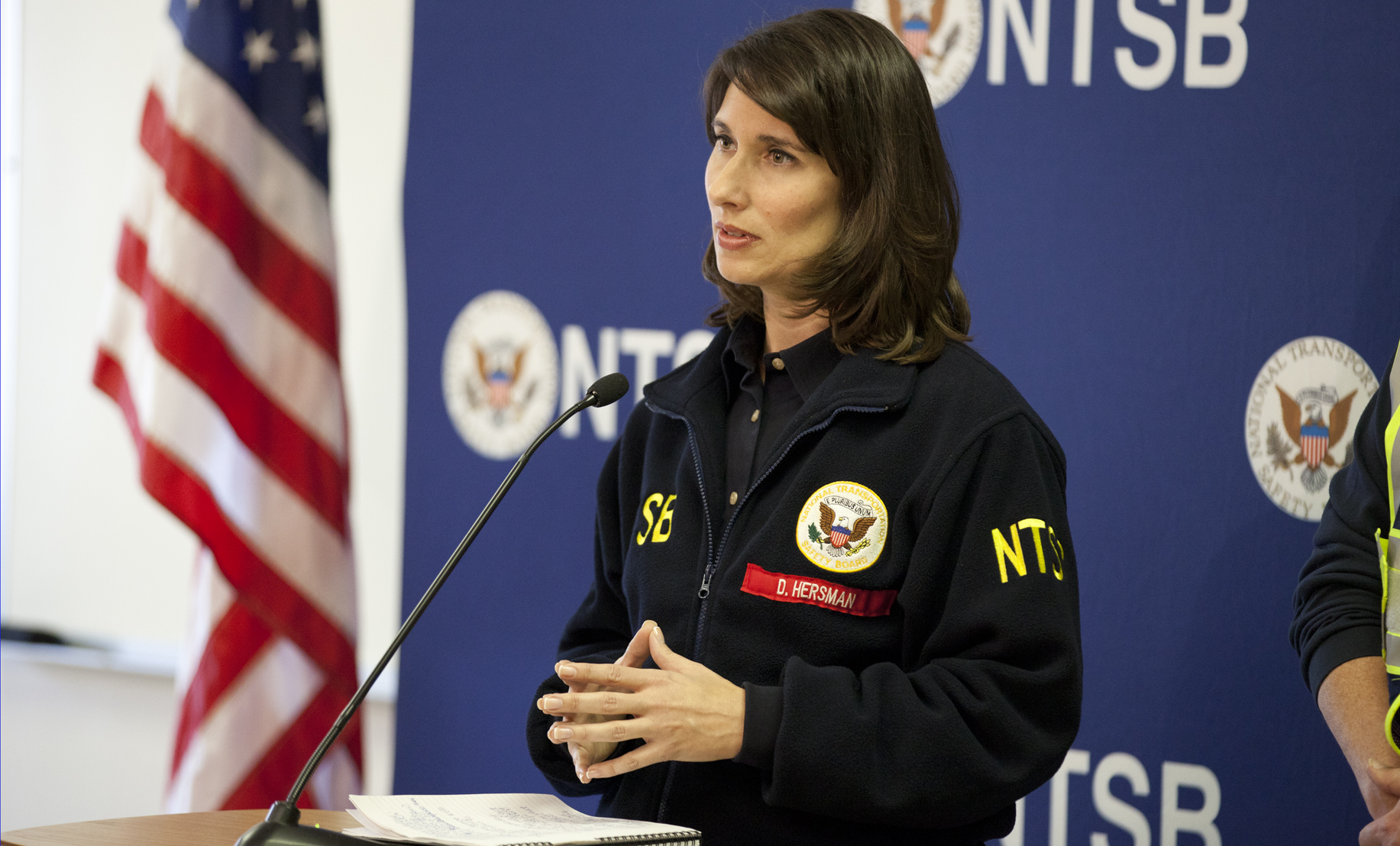 NTSB holds media briefing Monday December 3 on N.J. train derailment and hazmat release.